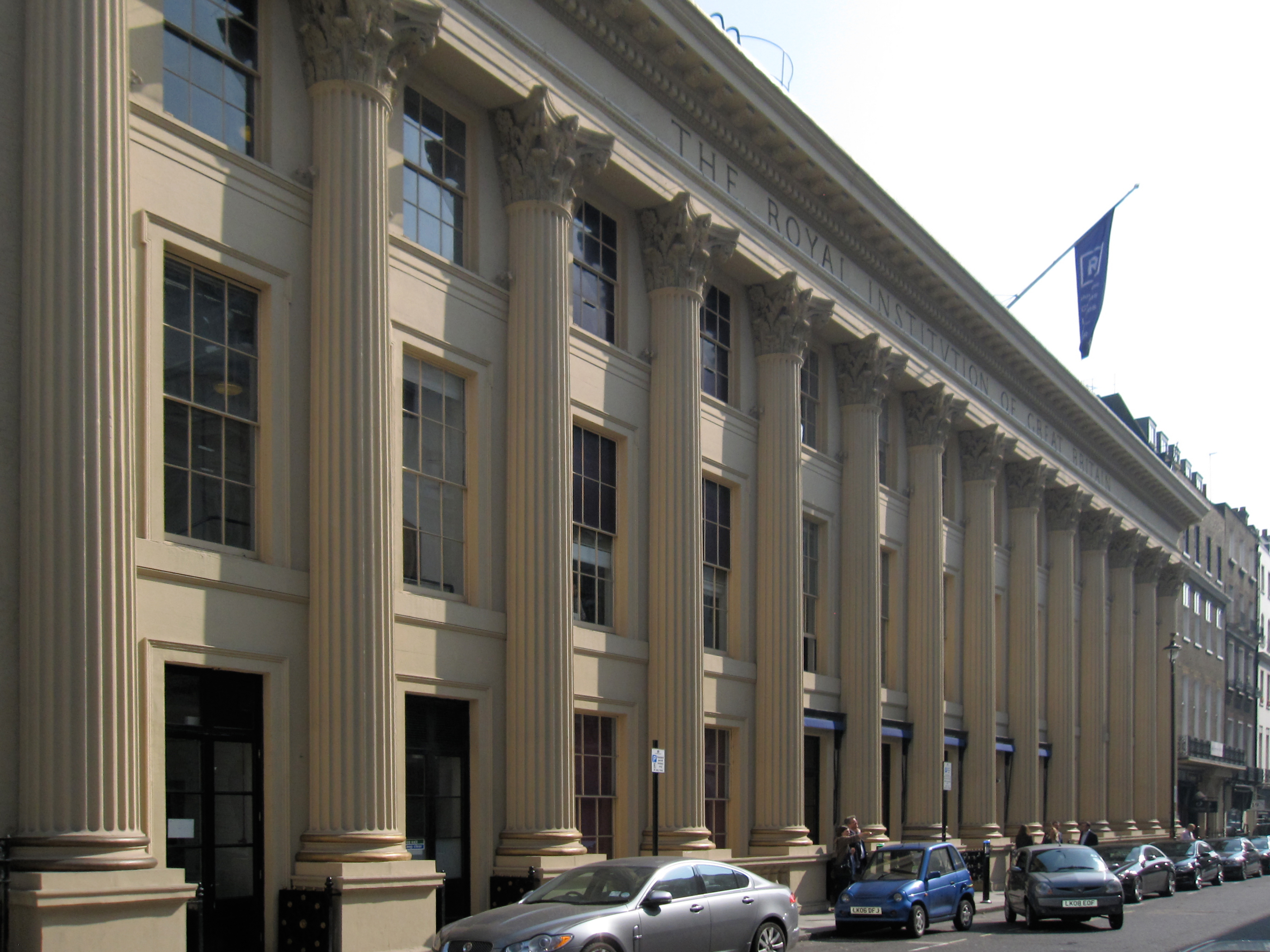 Royal Institution in London.